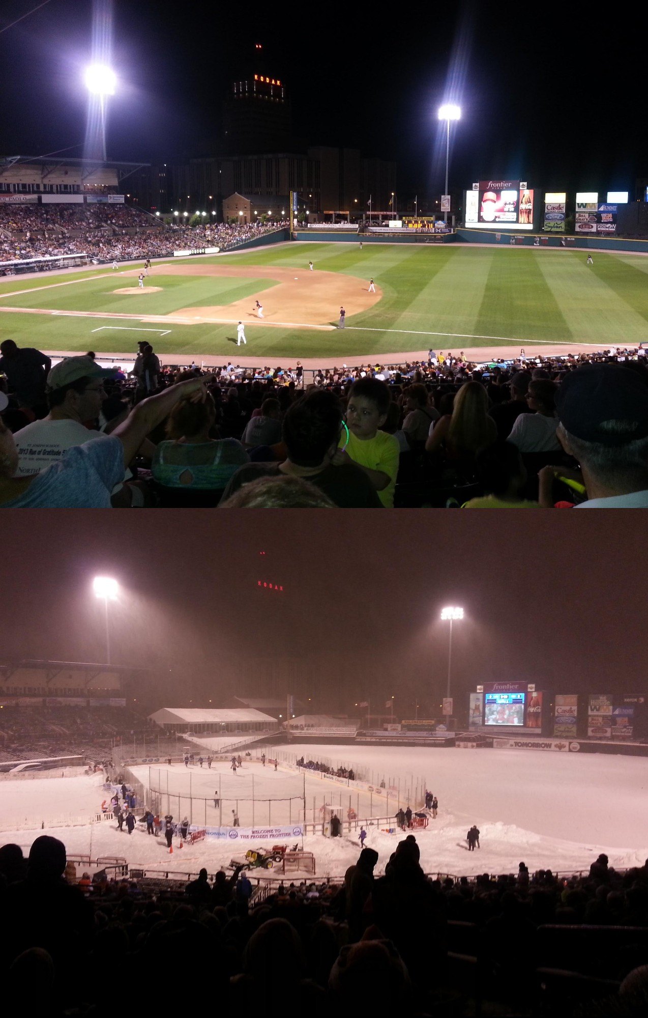 This image is a composite of two aligned photographs taken at Frontier Field in Rochester, NY. The top image was taken during a Red Wings Baseball Game on June 29, 2014 at 9:35 pm. The lower image was taken during the Rochester Institute of Technology Men's Ice Hockey game during the Frozen Frontier event on December 14, 2013 at 7:26 pm. Both images were taken from seating section 203. The Eastman Kodak Company corporate headquarters is visible in the background.